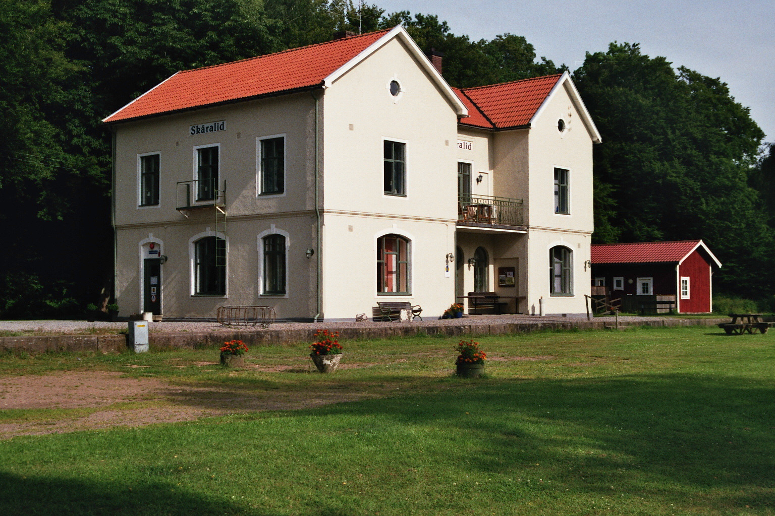 Former railway station of Skäralid, in 2015 a Vandrarhem (a hostel of STF, associated with Hostelling International)